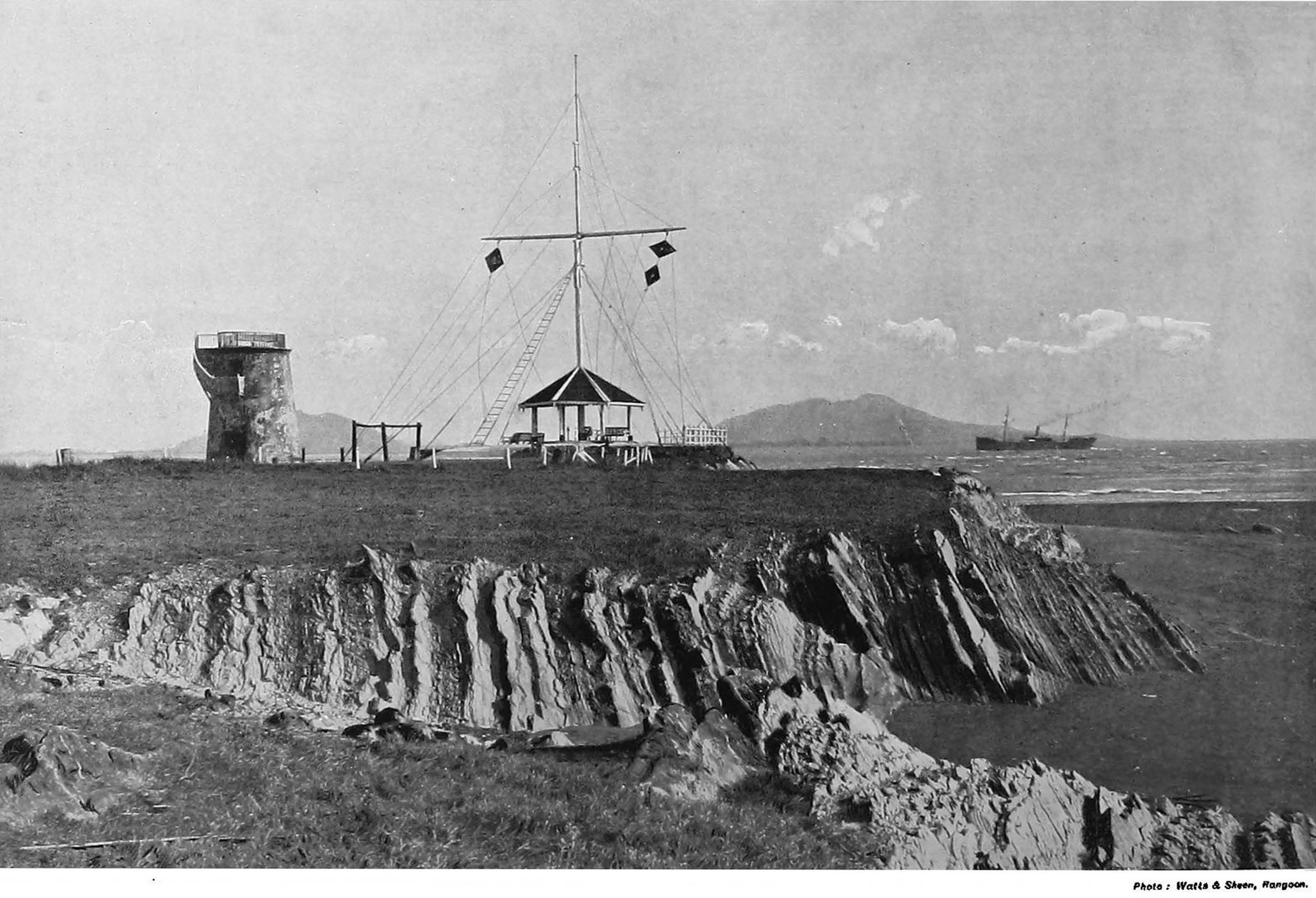 A MAIL STEAMER SIGNALLING OFF THE COAST OF BURMA All they " that go down to the sea in ships " know Lloyd's Signalling Stations. Wherever the ships in their long sea journeys come in sight of the land, there before long will the look-out man spy the familiar flagstaff of Lloyd's Station ready to impart news, to answer inquiries, to receive and transmit to owners and anxious friends the news of the ship's safe arrival. The wonderful flag code, knowing no difficulties of language, speaking to every man in bis own tongue, will tell him the lime, inform him that "Freights are dull." that " War has broken out." that " Pirates are to be feared." all with equal equanimity and certainty : and will take in the varying messages which the seaman sends—"Short of pork," "All well on board," "Down with yellow fever," or "Am sinking; all hope must be abandoned," with readiness and despatch.